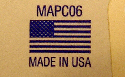 Made in USA label